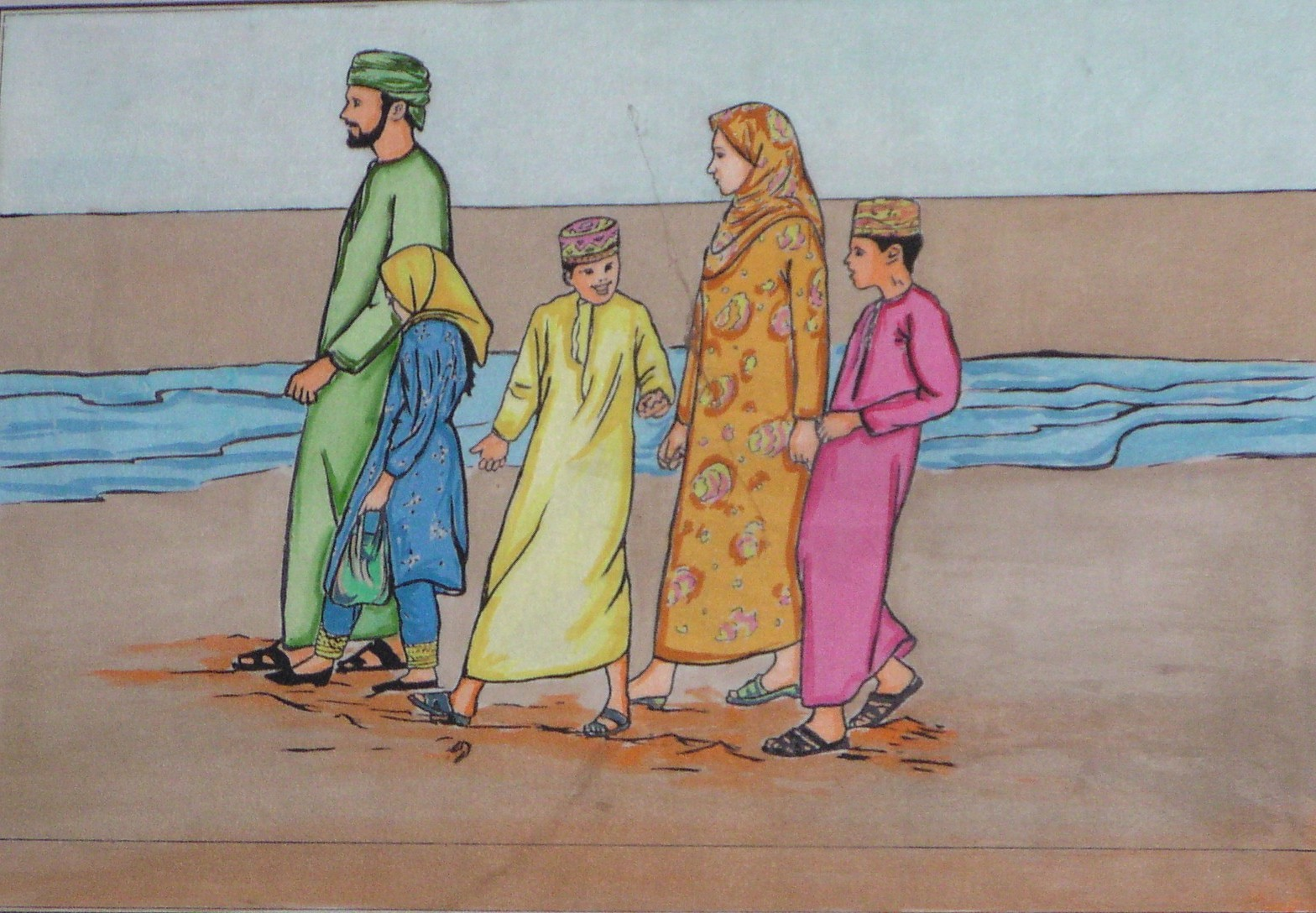 An Omani family